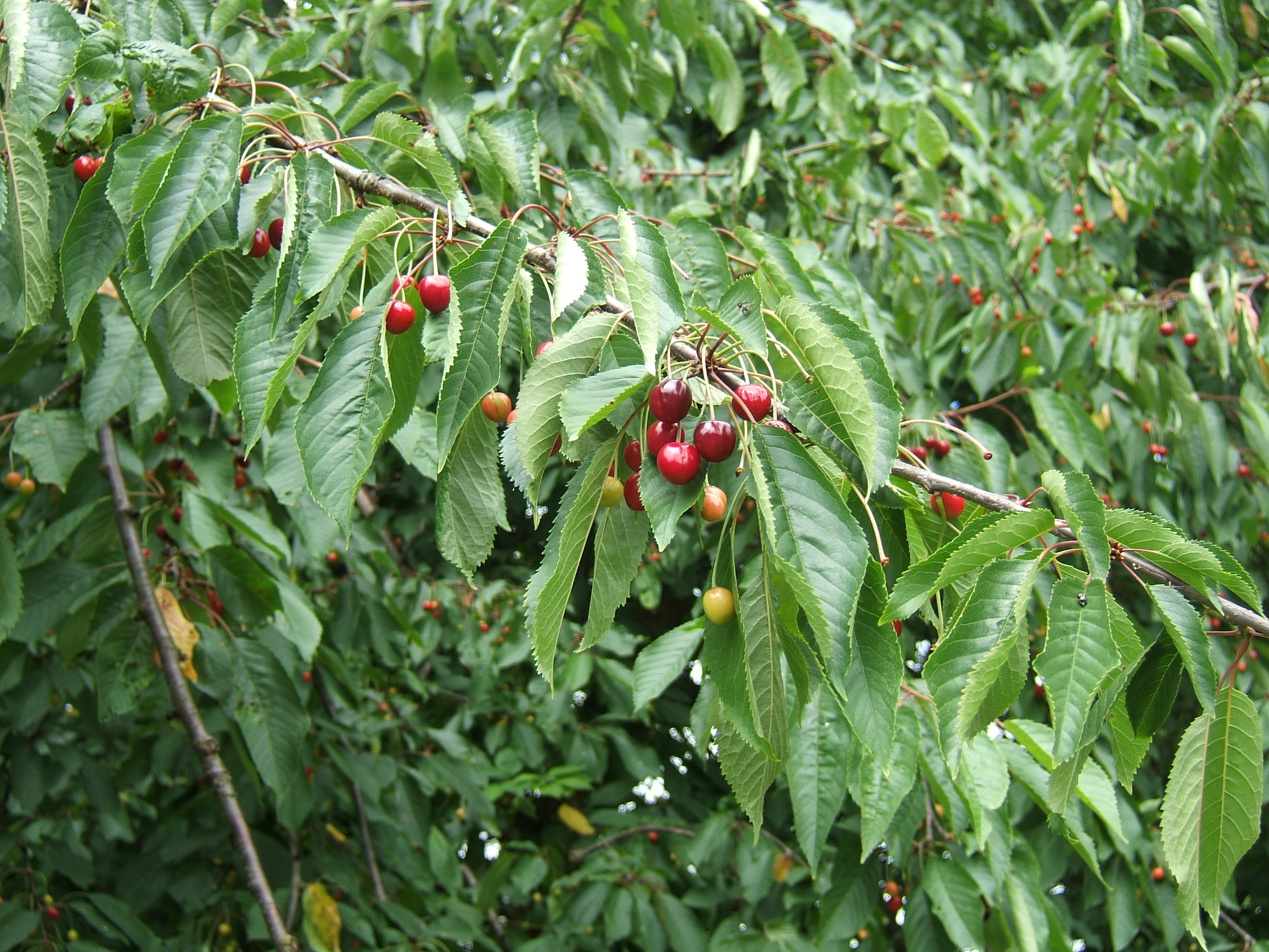 Prunus avium immature fruit, Northumberland, UK; 13 July 2006